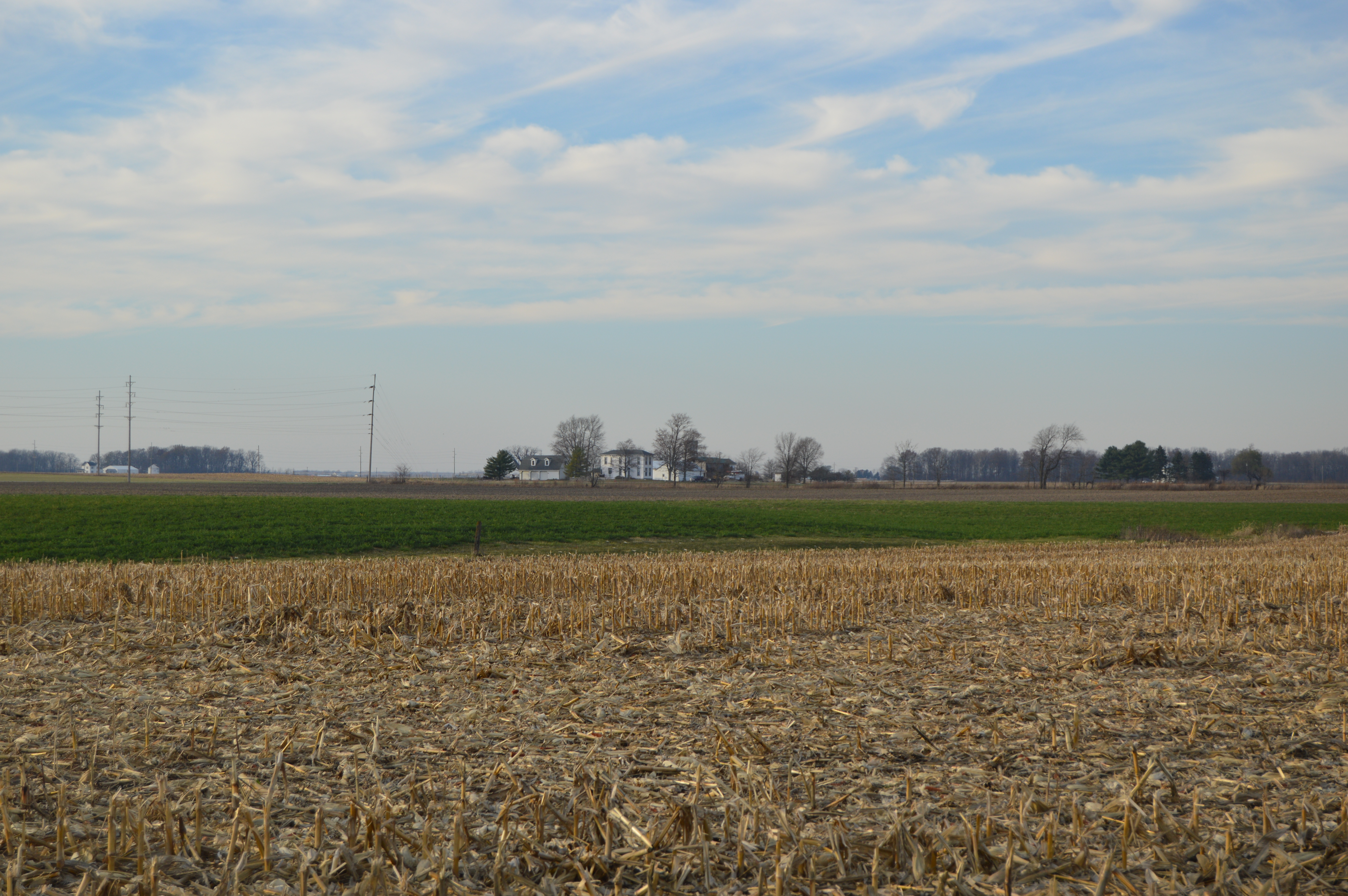 Fields on the southeastern side of State Route 722 east of Castine in Butler Township, Darke County, Ohio, United States.